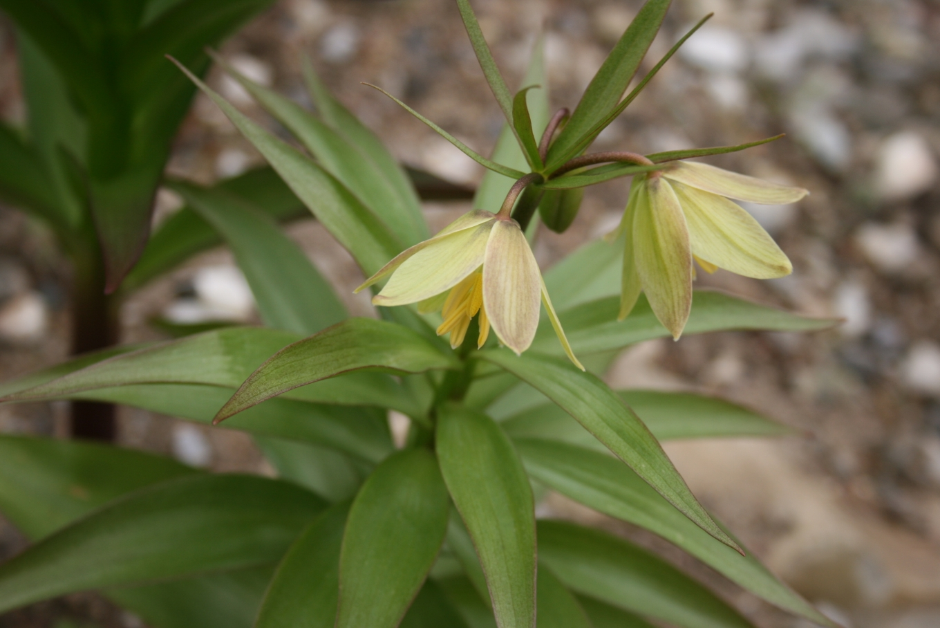 Fritillaria raddeana: Flowers (Århus Botanical Garden)